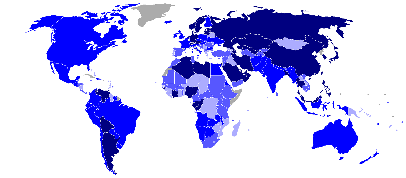 current account balance as percent GDP from IMF WEO October 2010 data Quartiles: −48.27% to −9.3125% −9.3125% to −3.59% −3.59% to 1.6125% 1.6125% to 223.79%